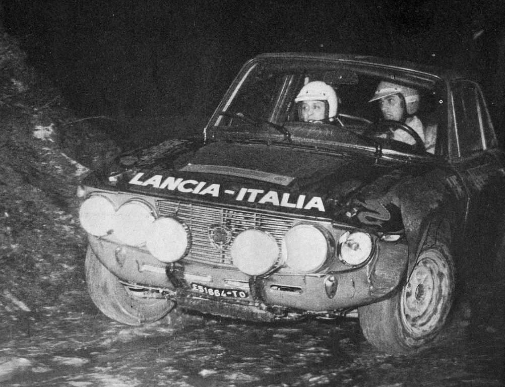 Italian rally driver Sandro Munari and his co-driver Mario Mannucci on a Lancia Fulvia 1.6 Coupé HF at the Sanremo-Sestriere - 1971 Rallye Italy.